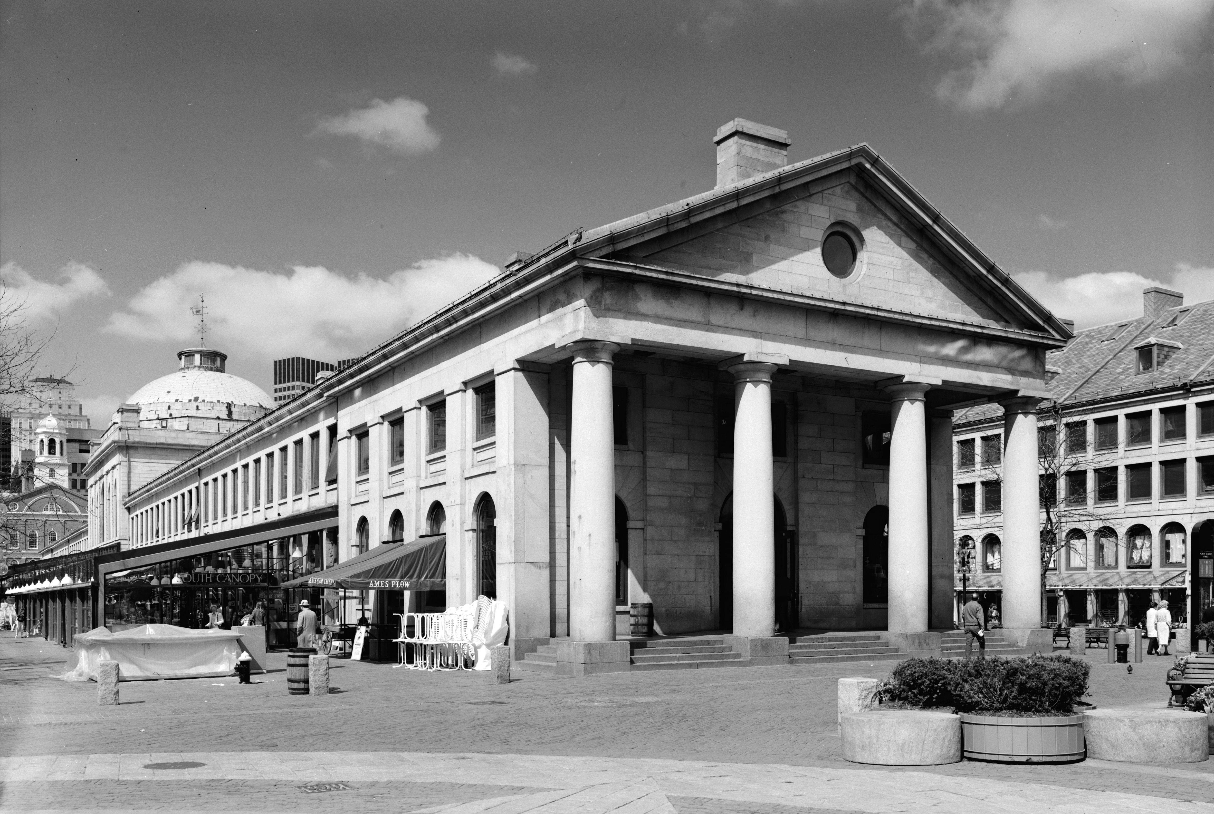 A photo of Quincy Market, located in Boston, Massachusetts, USA.